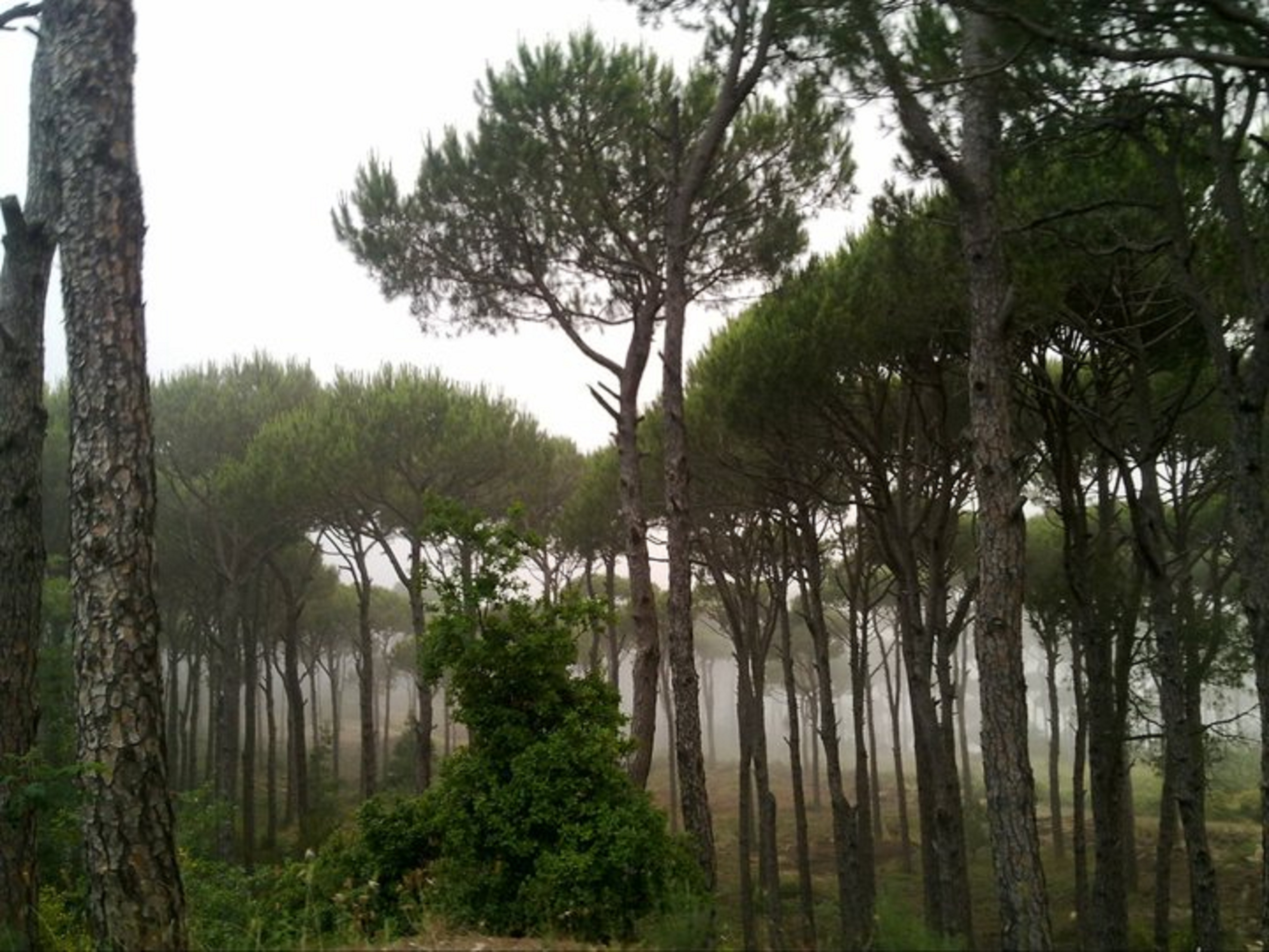 Stone Pine (Pinus pinea) forest in R'as Al-matn village, in the Mount Lebanon Range, northern Lebanon.